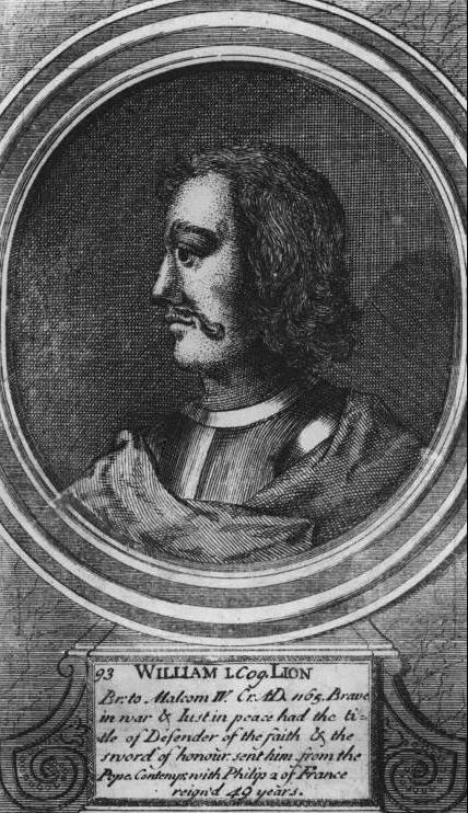 Portrait of William I, king of Scots